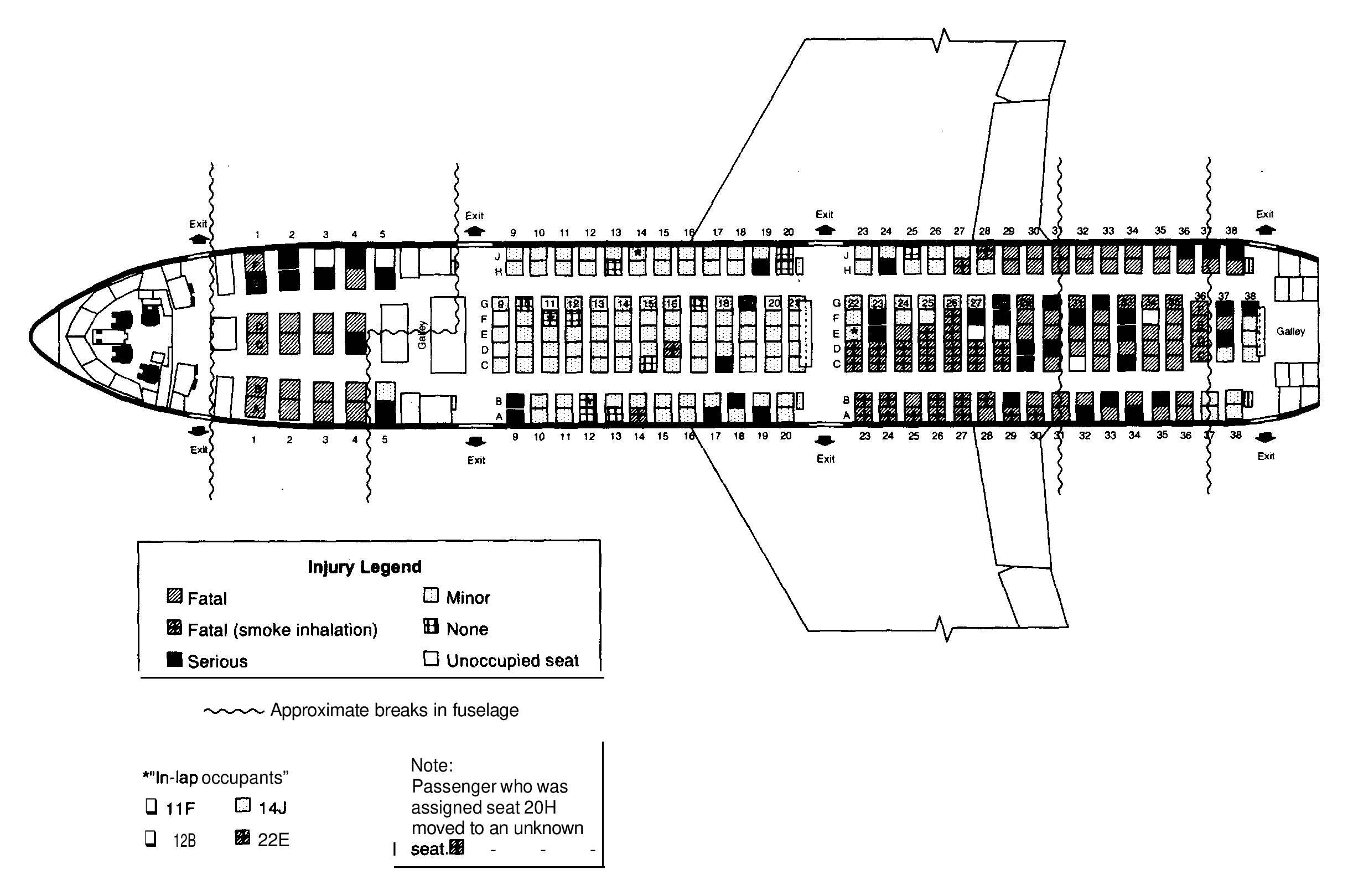 A map of seats on United Airlines Flight 232 produced by the NTSB. This shows the level of injury received by each passenger aboard the DC10 involved based on location in the plane.